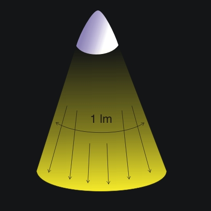 Fluxo luminoso